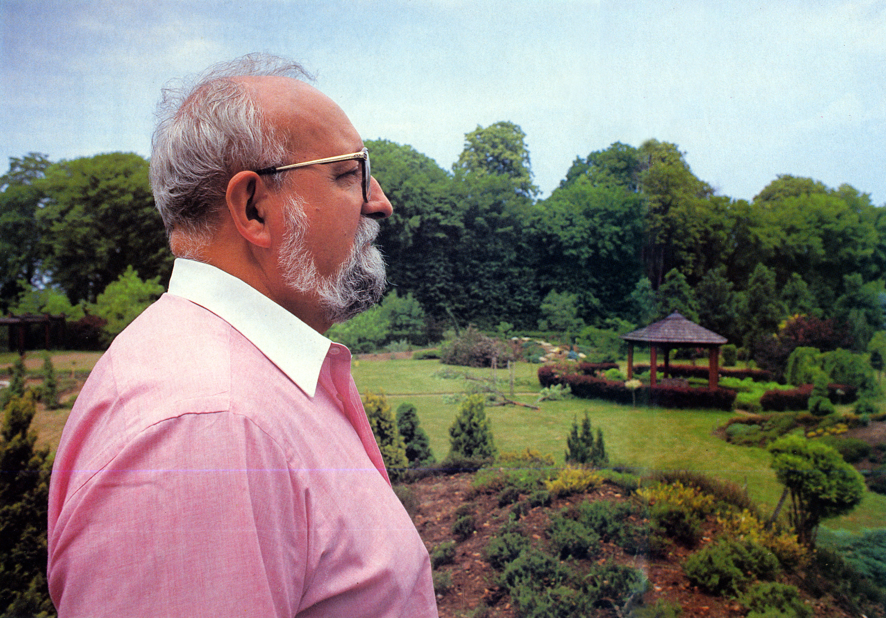 Krzysztof Penderecki in his garden, 1993